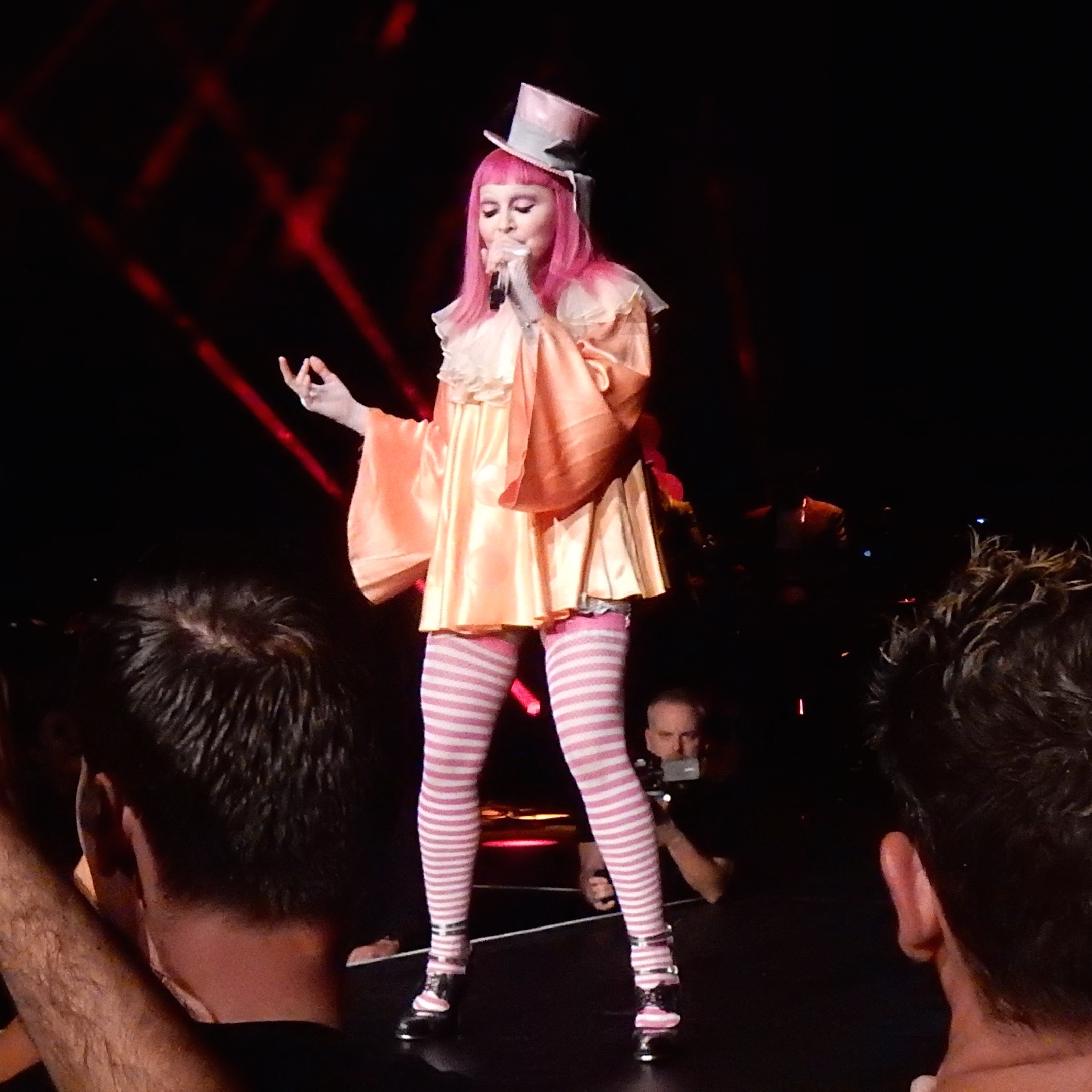 Special fan only show at The Forum, Melbourne, 10 March 2016